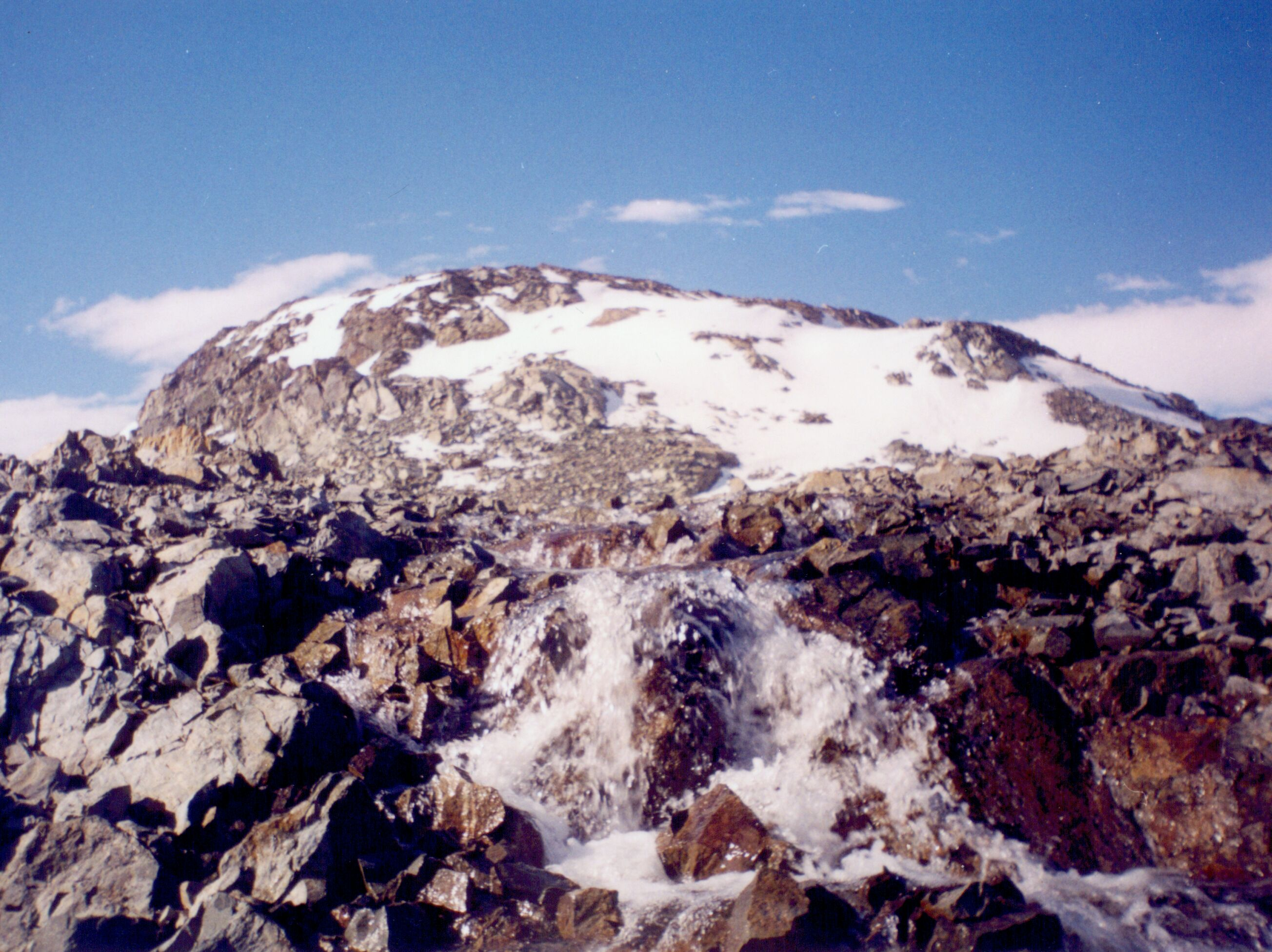 Lyubomir Ivanov